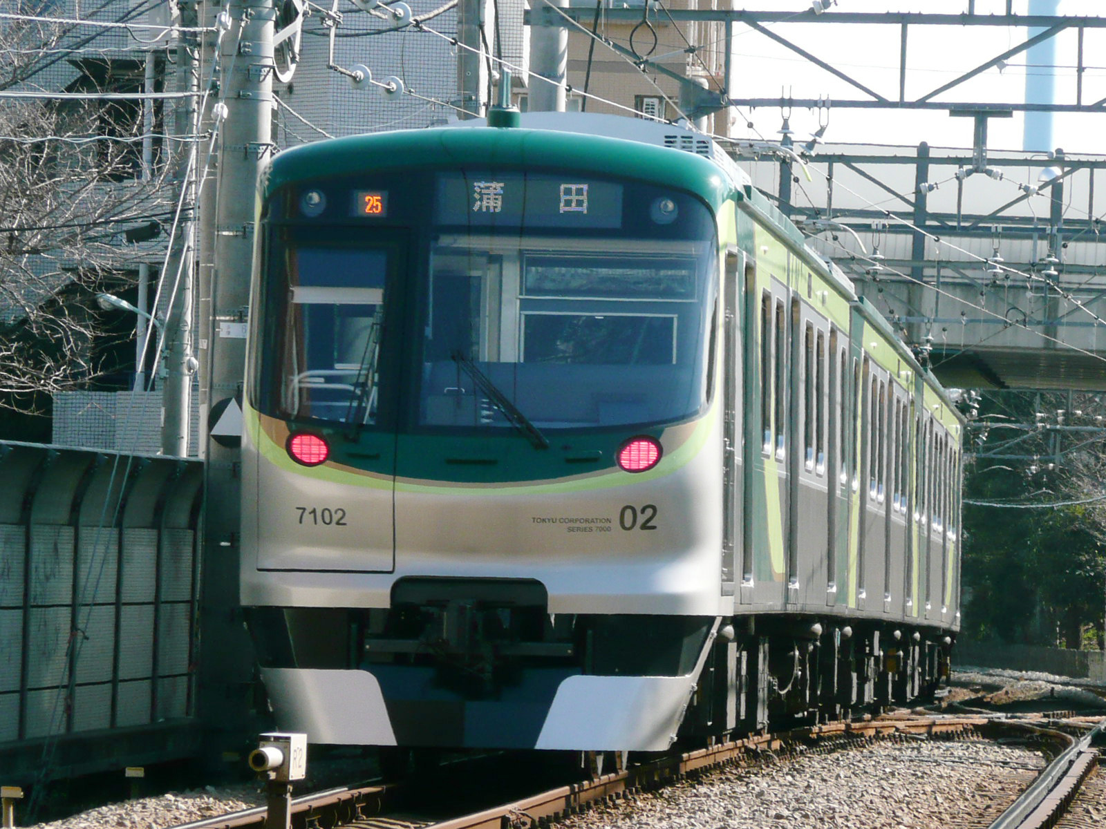 Tokyu 7000 series EMU set 7102